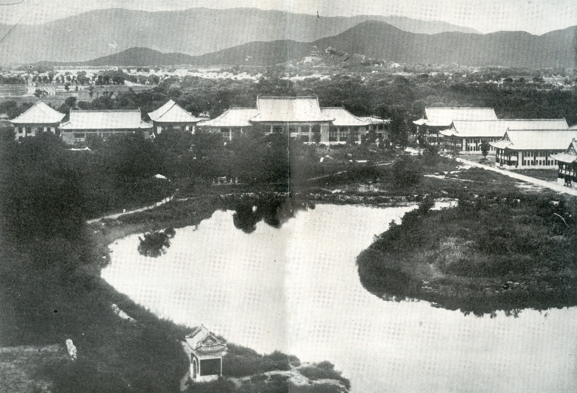 Campus of Yenching University with the Western Hills and the pagoda on the Summer Palace grounds seen in the distance. Scan from "Our University in Peking" 1926